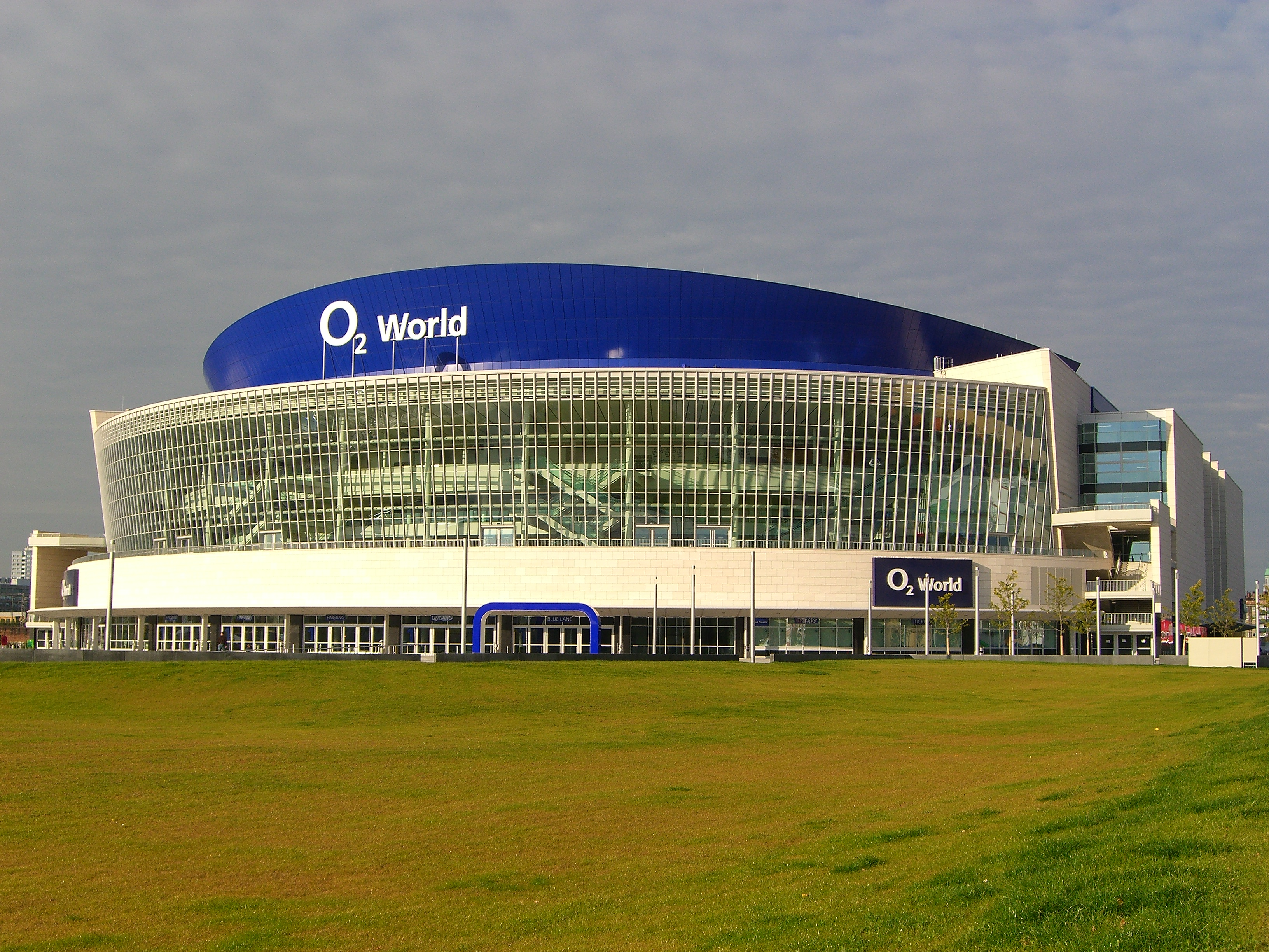 Multi-use indoor arena O2 World in Berlin.